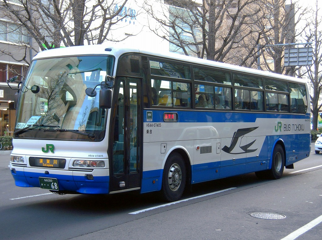 JR bus Tohoku Mitsubishi Fuso Aero Bus(PJ-MS86JP)